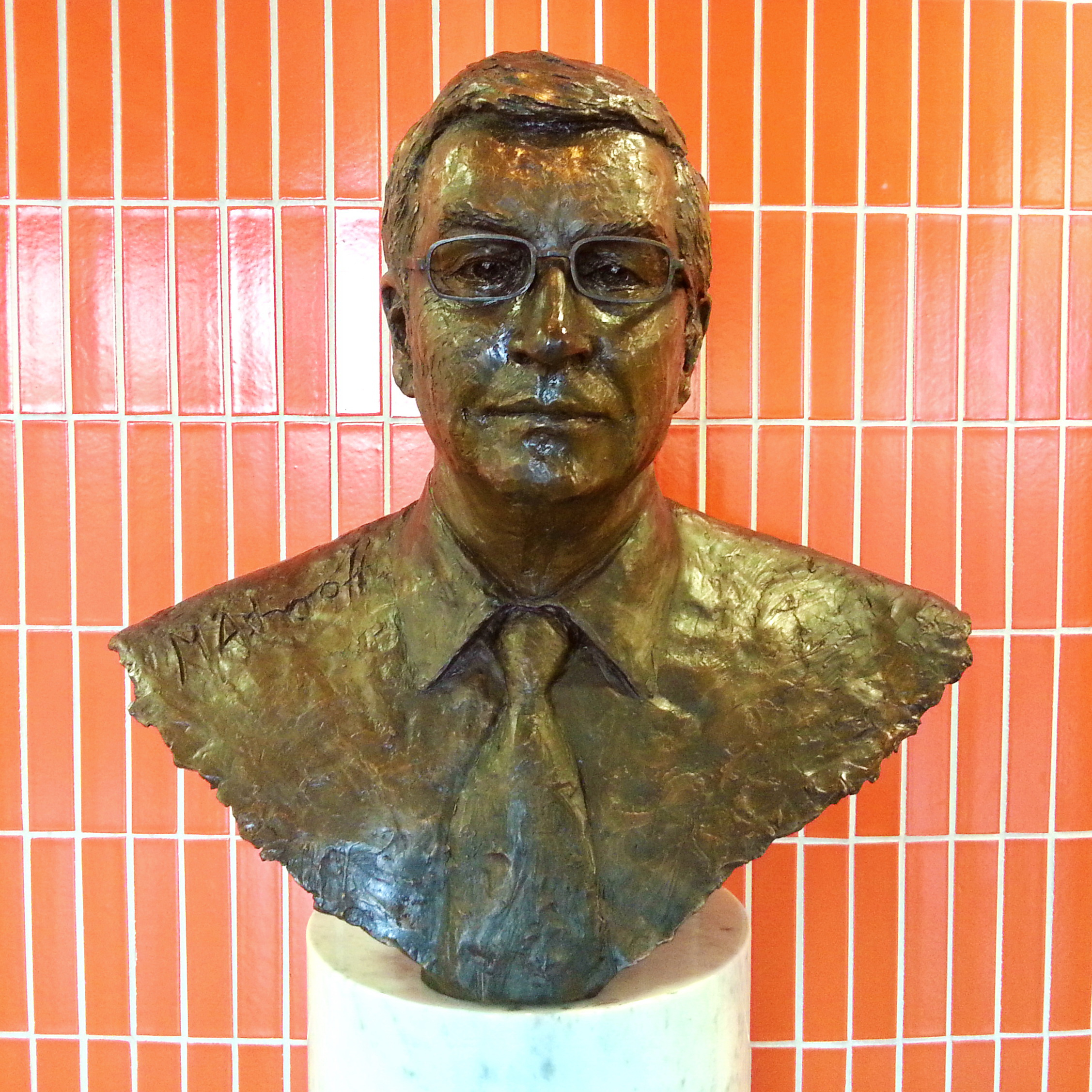 The bust of Lord Michael Ashcroft at the Lord Ashcroft International Business School Anglia Ruskin University. The building that contains the sculpture is too named after him.